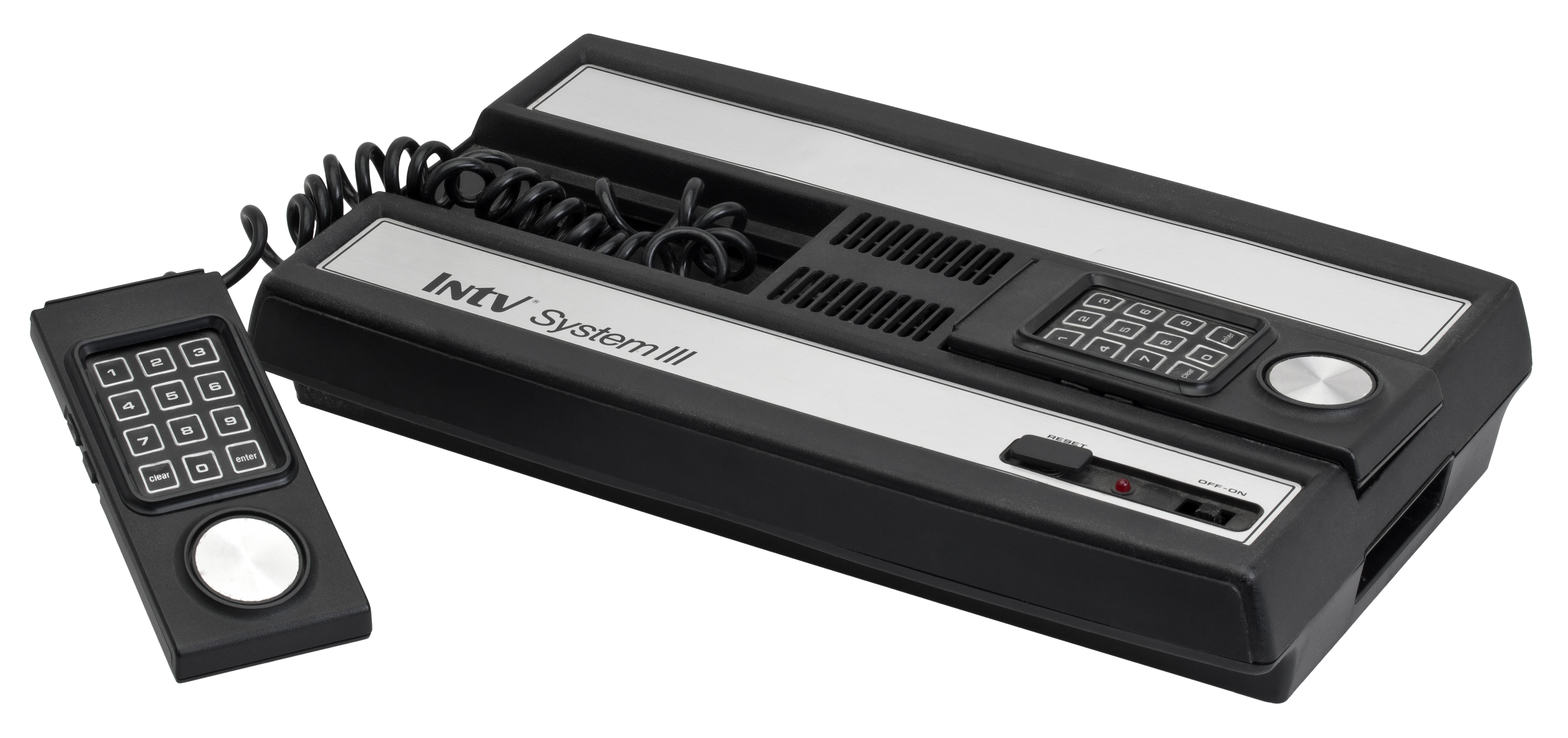 The INTV System III video game console. This is the third redesign of the Intellivision console and was released following INTV's buying of the Intellivision rights in 1985.